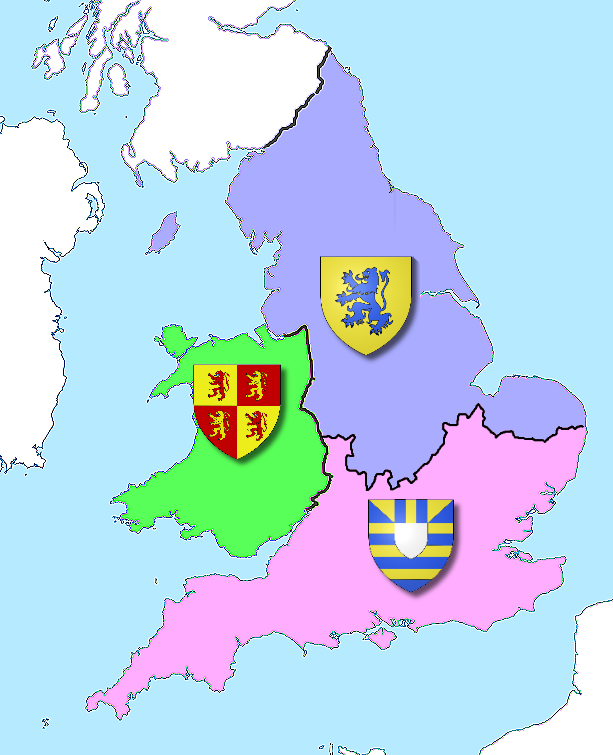 Triparte division of England and Wales as agreed in the Tripartite Indenture between Owain Glyndŵr, Edmund Mortimer, and Henry Percy, 1st Earl of Northumberland in February 1405. File:Flag of Wales.svg - Fry1989 File:Flag of France (7x10).svg - Abjiklam File:Flag of Scotland.svg - Wangi File:Redvers.svg - User:Jaspe File:Mortimer.svg -User:Jaspe File:Tarian Glyndwr Arfbais.png - Llywelyn2000